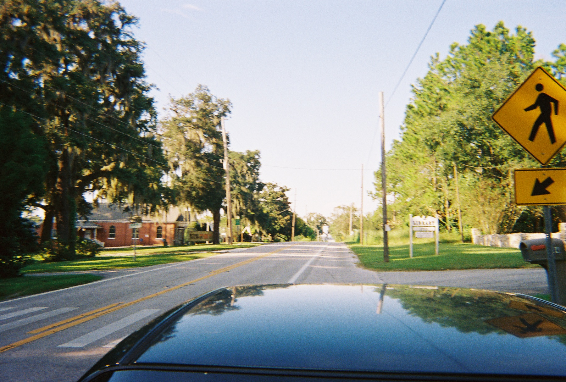 A church along Hernando County Road 541 in Spring Lake, Florida, and a library and community center that's affiliated with this church, and was added to the National Register of Historic Places on October 20, 2009. I took this shot from behind the trunk of my car. The green thing you see at the bottom of this pic is the roof.